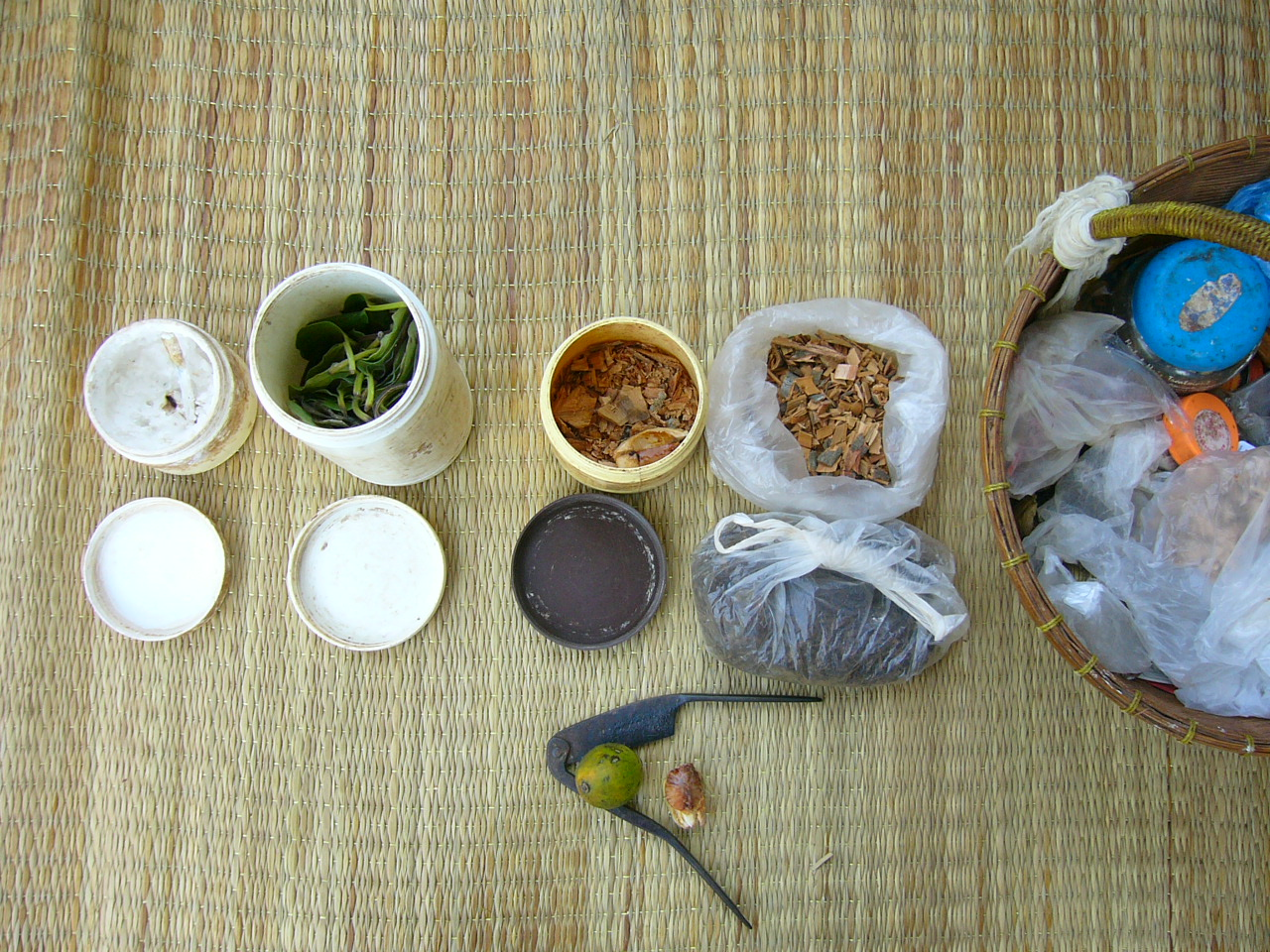 Kin Mak (Thai chew with Betel nut, tobacco and other components).